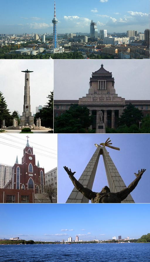 Montage of Changchun, Clockwise from top: panoramic view around Ji Tower, Former Manchukuo State Department, Statue on cultural square, Changchun Christian church, Soviet martyr monument, Nanhu park